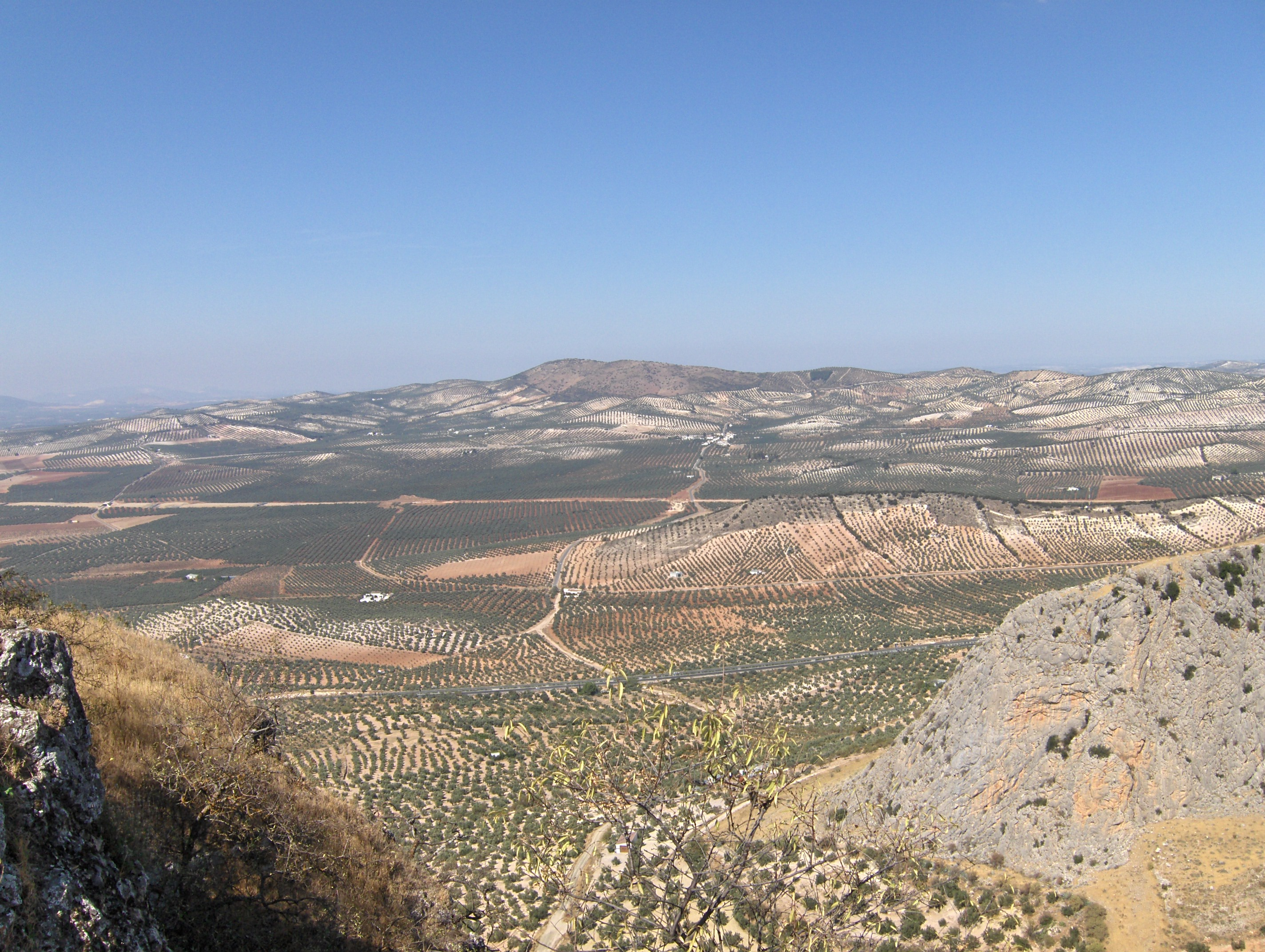 Olive groves in Archidona, Málaga, Spain.